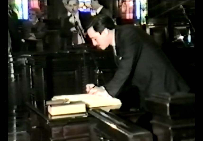 Gabriel Cavallo en su jura como Juez Federal, el 9 de junio 1999.